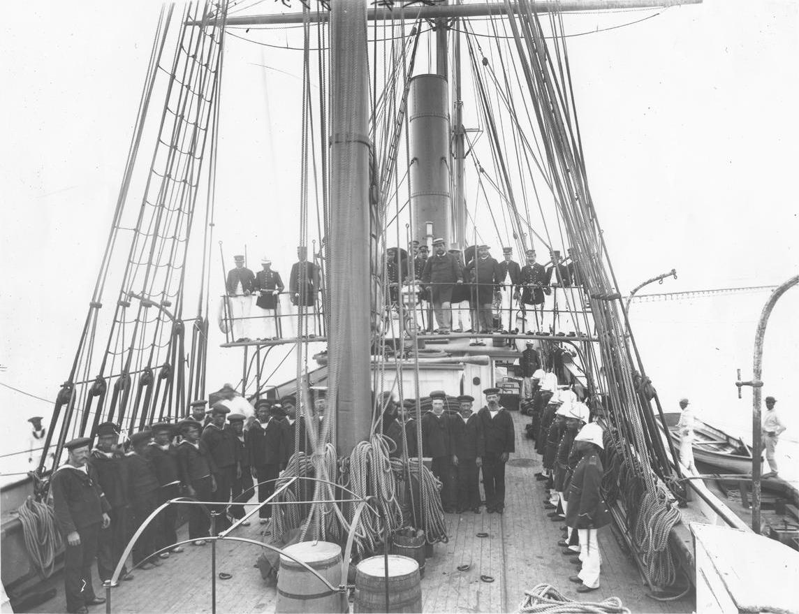 Kalakaua abroad the Kaimiloa before it sailed to Samoa. Kalakaua, Antone Rosa, and Paul Kanoa inspecting Kaimiloa.